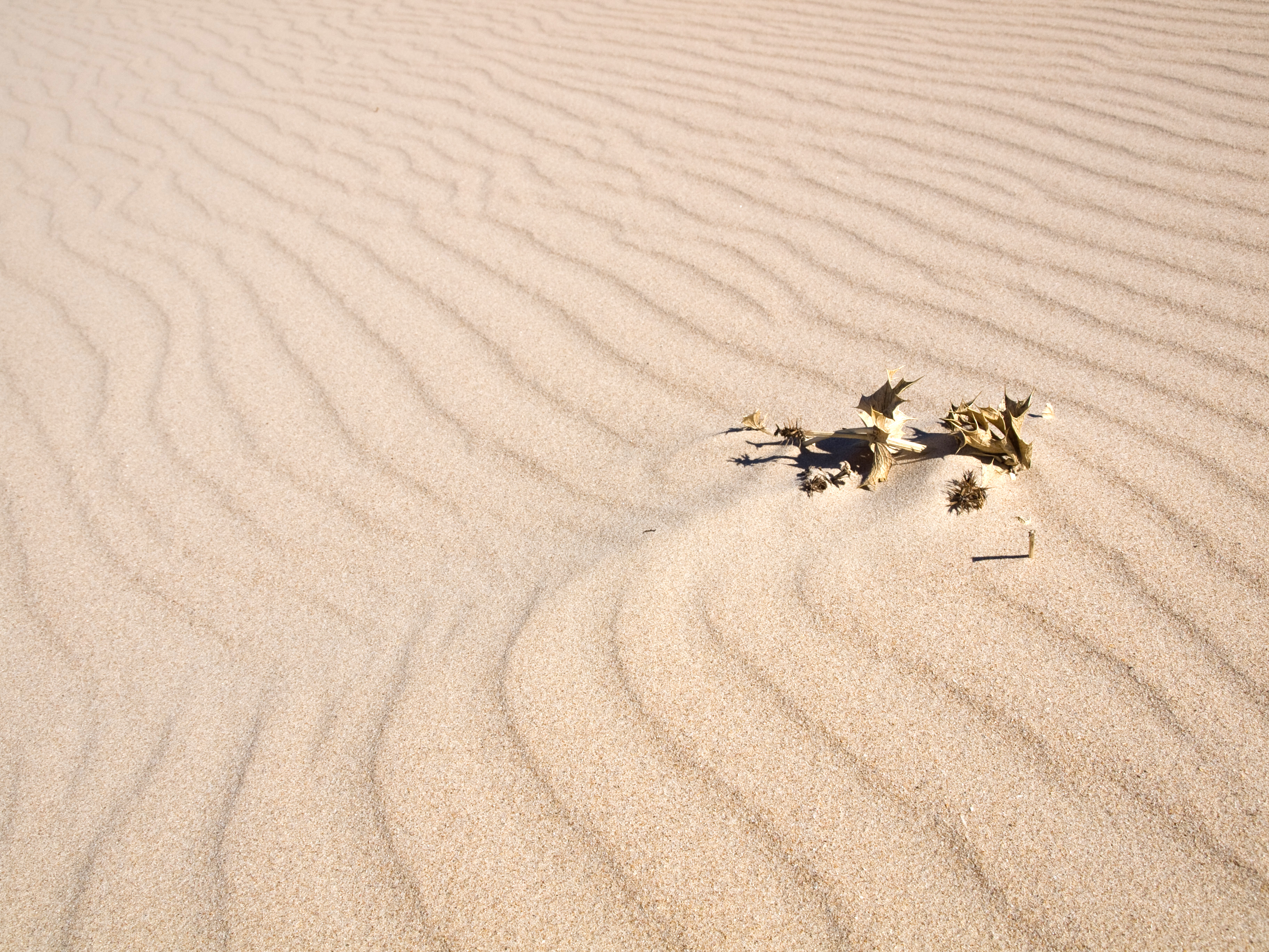 Rizaduras debidas a la acción del viento. Cardo marítimo (Eryngium maritimum) seco. Parque Nacional de Doñana. Huelva. (España)